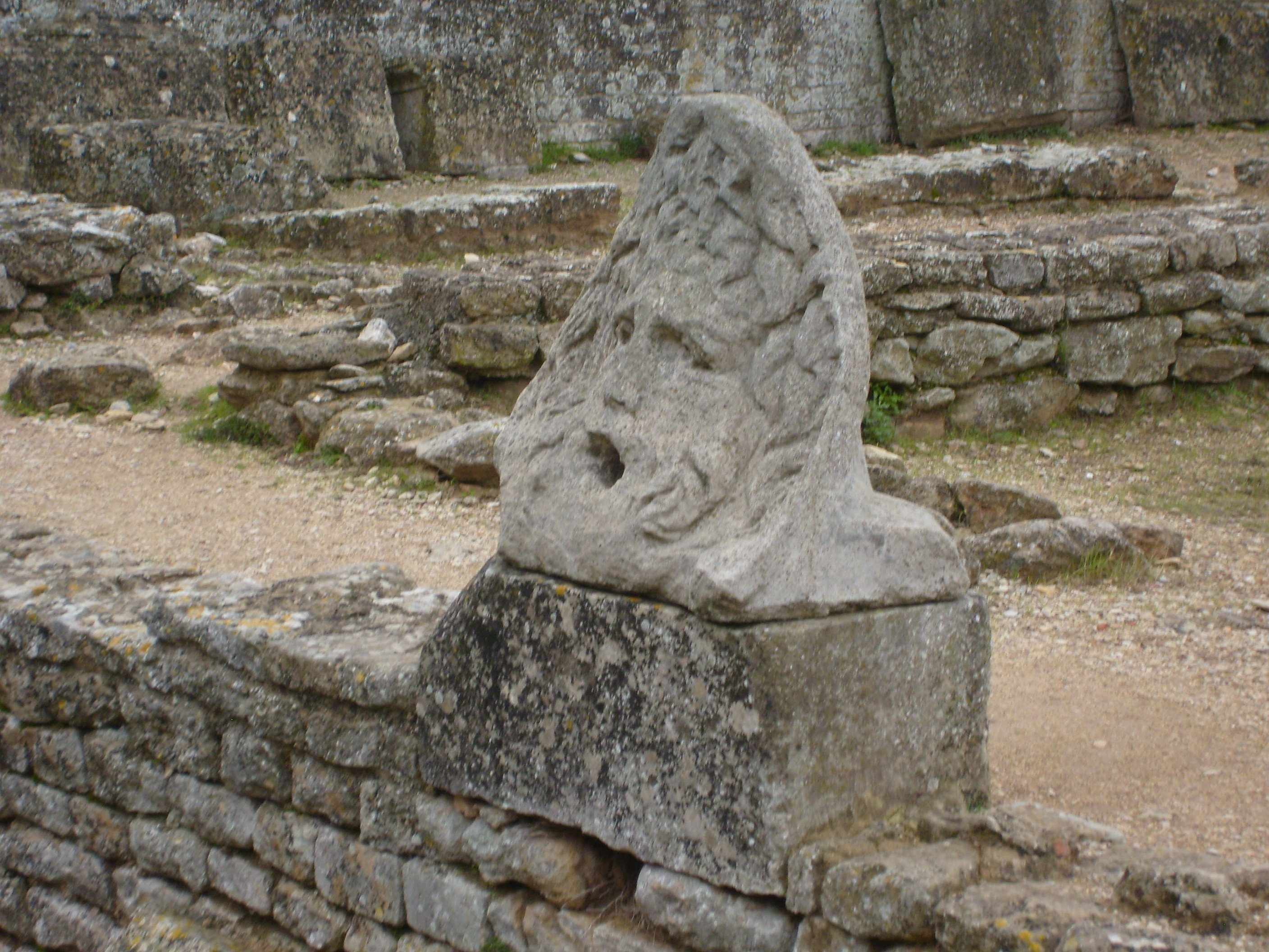 Roman fountain providing water to bathing pool of baths at Glanum, 1st century AD. (Copy of the original in museum in Saint Remy de Provence.)